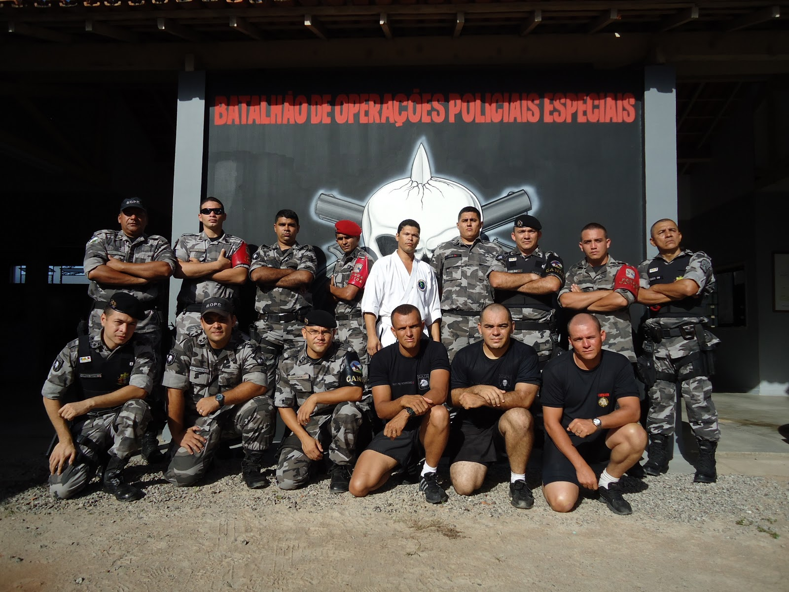 Police BOPE PMRR.